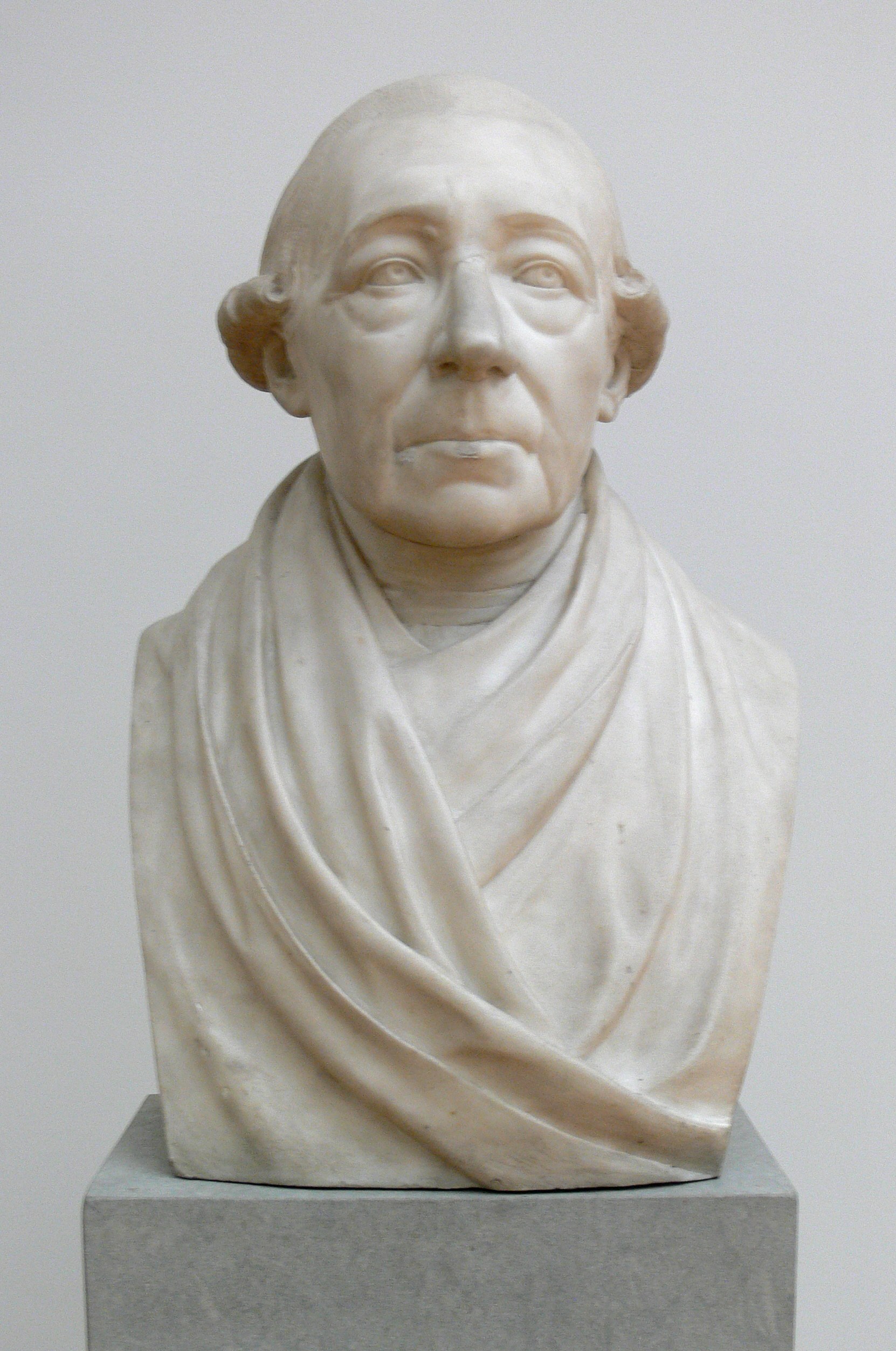 Johann Gottfried Schadow: Portrait bust of Johann August von Beyer (1732–1814); Berlin 1803, marble. Kaiser-Friedrichs-Museums-Verein (Inv. no. M 195, acquired in 1952), on permanent loan to the Skulpturensammlung, on display at Bode-Museum Berlin.